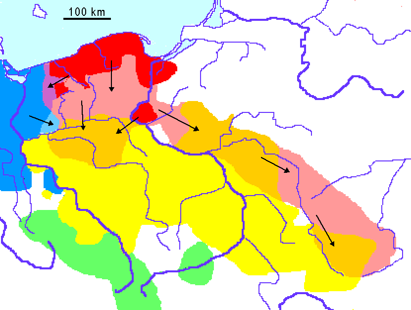 Localization of Oksywie, Wielbark and Przeworsk cultures, drawn after maps showing the single sites, printed in Reallexikon der Germanischen Altertumskunde, actual edition: Oksywie and early Wielbark later Wielbark Jastorf spreaded Wielbark displacing Jastorf Przeworsk Wielbark displacing Przeworsk La Tène culture (Celtic)